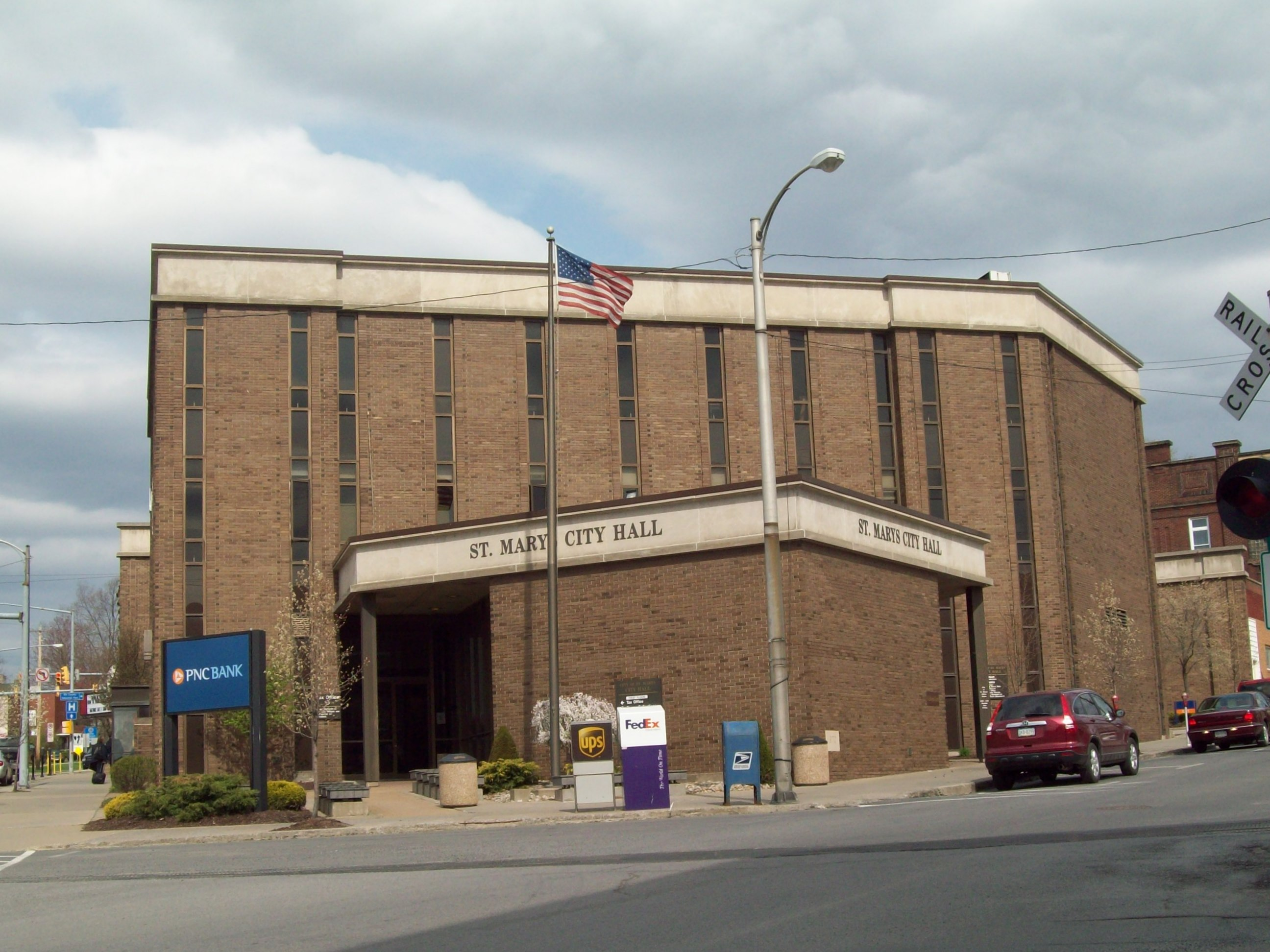 St. Marys, Pennsylvania City Hall. taken: April 2010